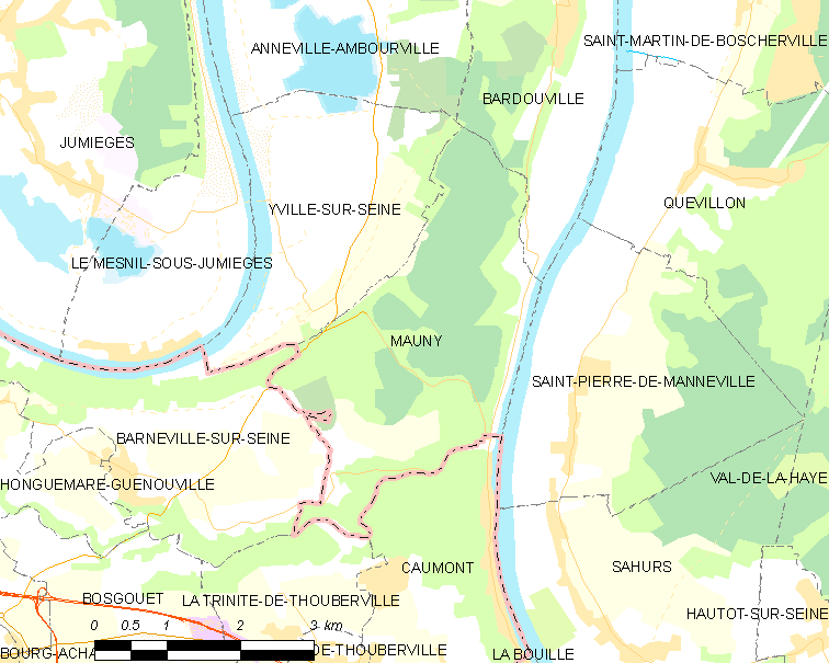 Map of French municipality Mauny